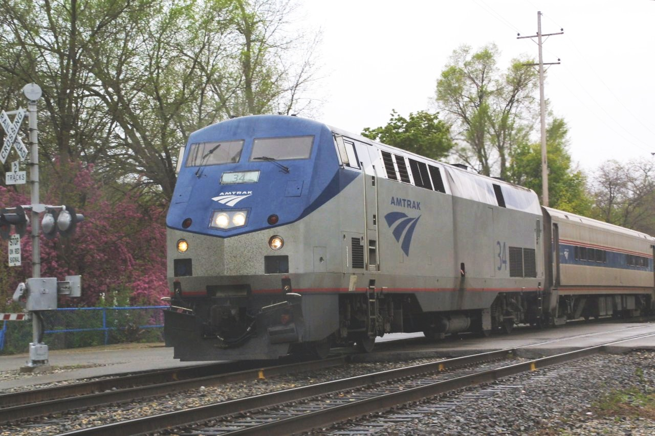 Amtrak #352 eastbound from Chicago to Pontiac on approach to Kalamazoo station.